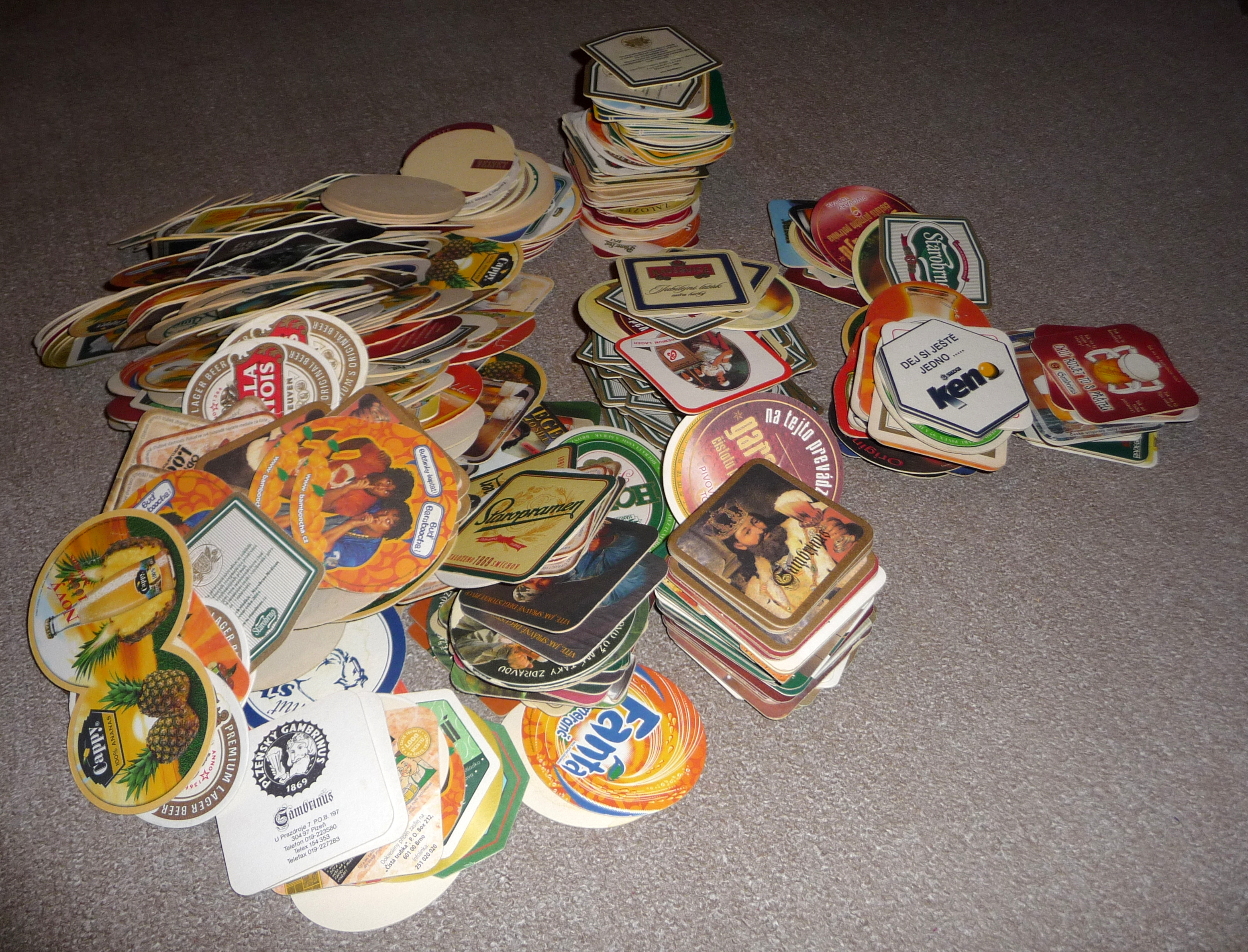 Bunch of beer coasters